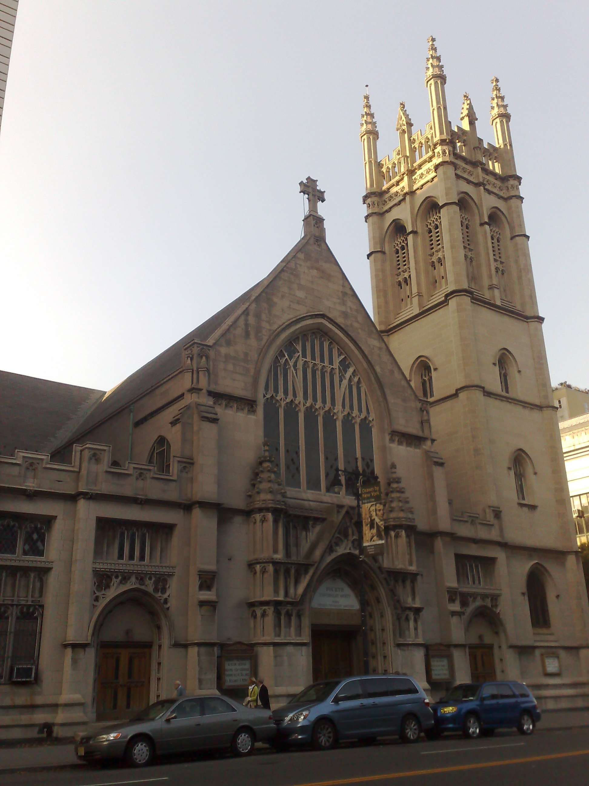 This photo is of Wikis Take Manhattan goal code A5, Fourth Universalist Society of New York.